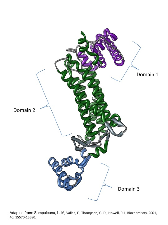 Monomer